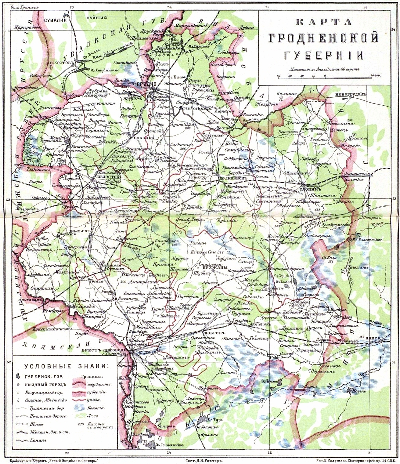 Map of Grodno Governorate